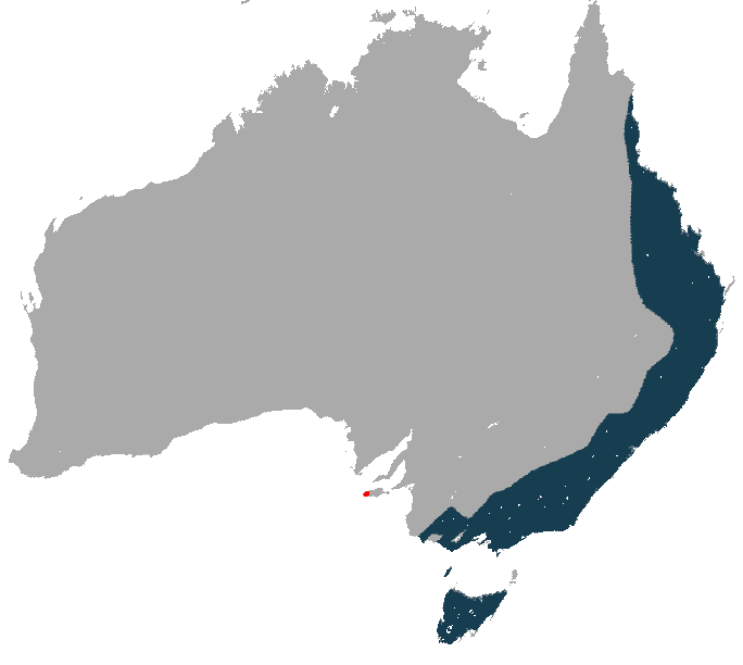 Platypus (Ornithorhynchus anatinus) range (blue — native, red — introduced)